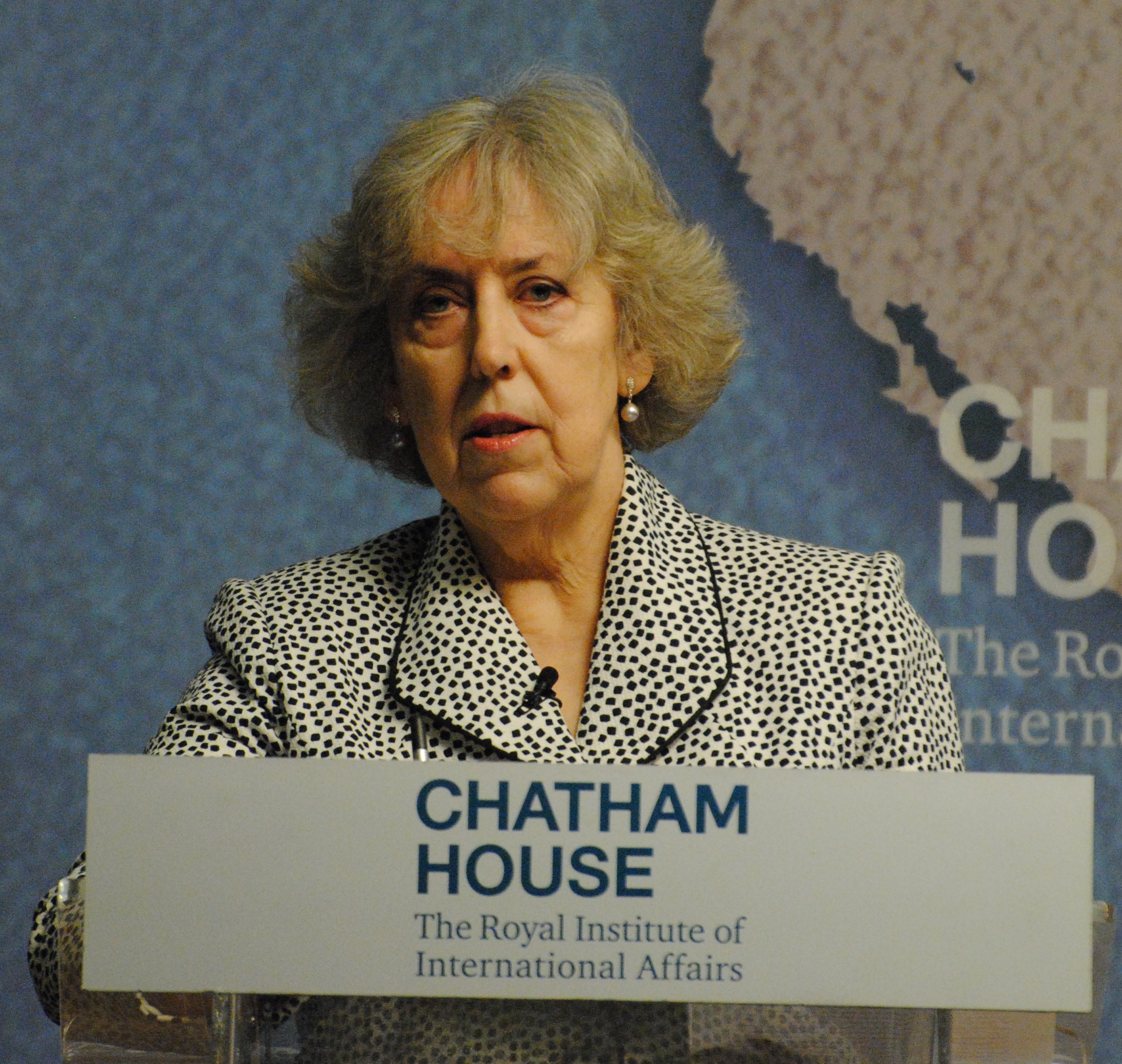 Brexit and National Security: Separating Fact from Myth, 11 May 2016, cht.hm/1OhMDYl